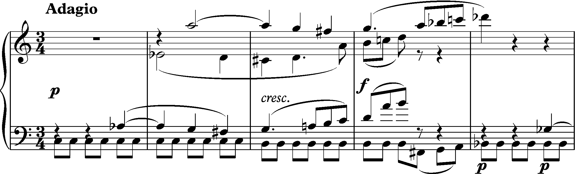 Mozart's String Quartet No. 19, "Dissonance", opening bars